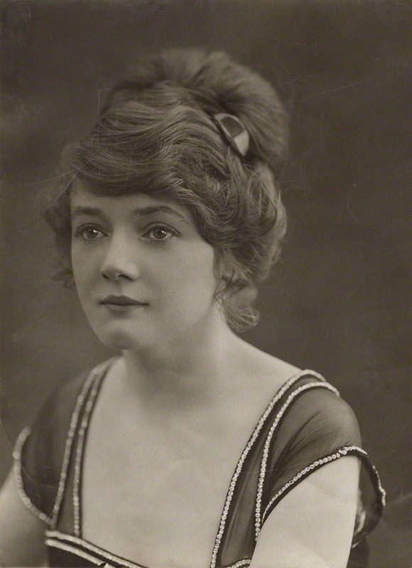 Actress Martha Hedman by Bassano, vintage print, 1914